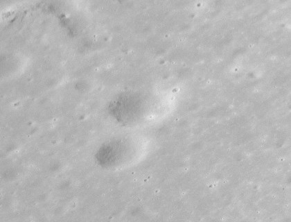 Oblique view of Robert crater, facing south, on the moon. Taken by Apollo 15 panoramic camera.